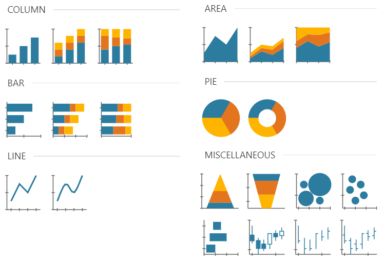 Some of the many chart types available in ActiveReports